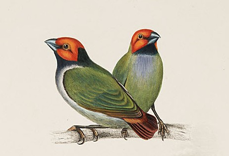 Erythrura pealii cropped from Titian Peale's plate